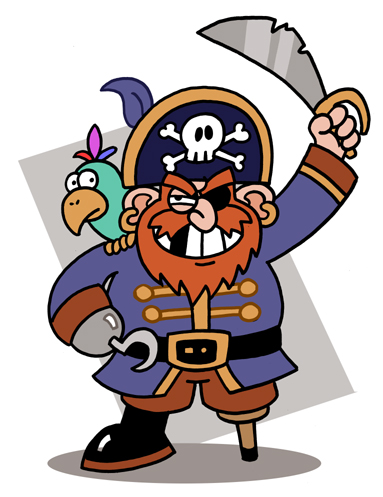 A stereotypical caricature of a pirate.